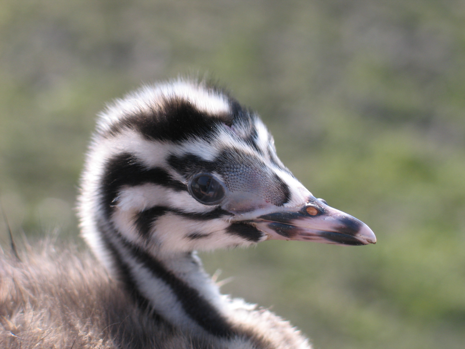 head of a juvenile Great Crested Grebe (Podiceps cristatus) showing characteristic black and white stripes. Picture was taken from hand during rescue operation in summer 2006. A mixed flock of Podiceps cristatus and Tachybaptus ruficollis was trapped in one of the receding pools that remained when the intermittent Lake Cerknica (Slovenia) dried out almost entirely. Birds were captured and taken to the nearby stable portion of the lake where they were released.